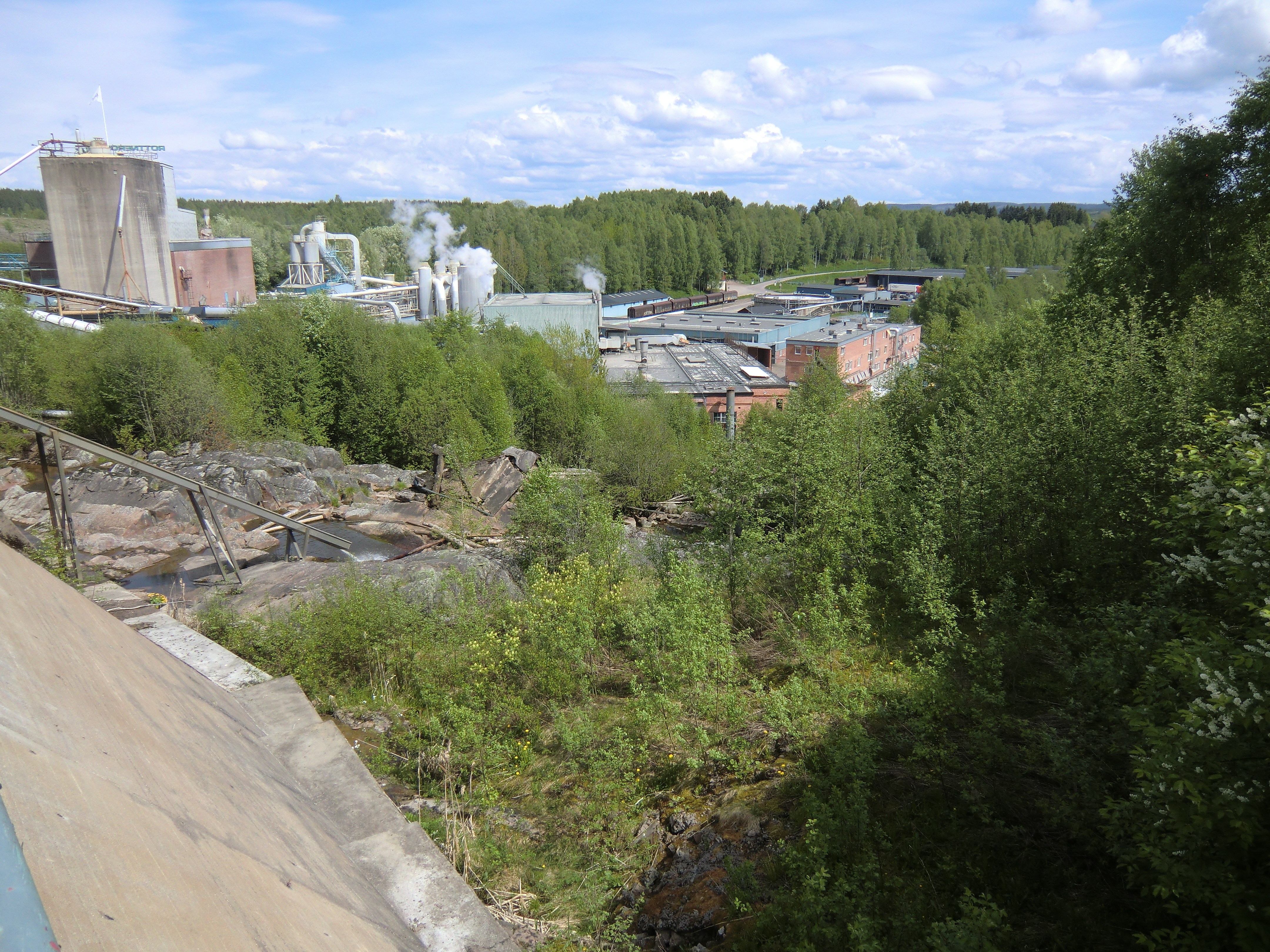 The pulp mill Rottneros Bruk, Värmland, Sweden